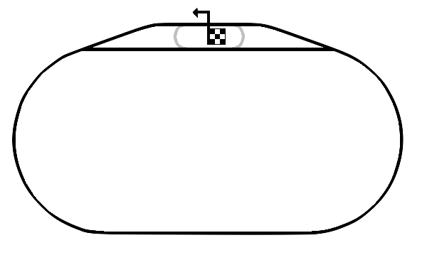 Simple line diagram of Texas Motor Speedway track layout